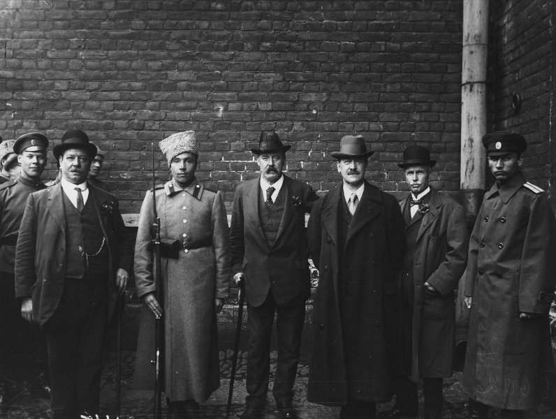 Soldiers of the Volyn Regiment with non-commissioned officer Timofei Kirpichnikov and representatives of the workers' associations of England